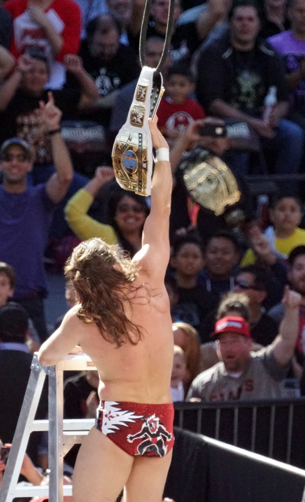 Daniel Bryan reaches for the Intercontinental Championship at WrestleMania 31 in a match he eventually won in Santa Clara, California.